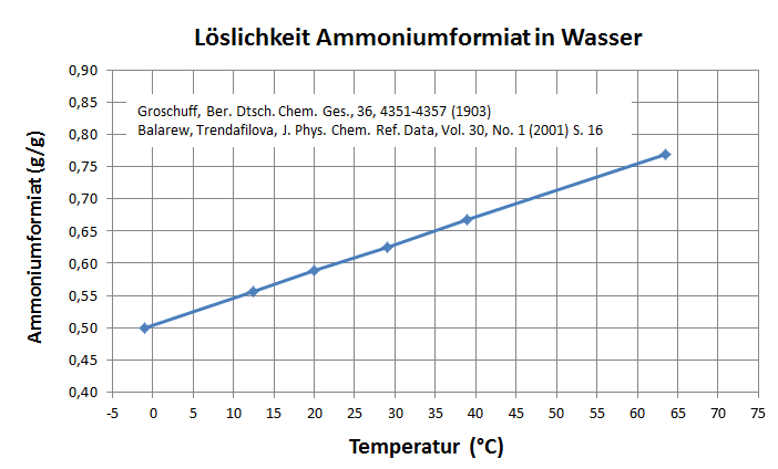 Solubility of ammonium formate in water plotted against temperature (Groschuff, Ber. Dtsch. Chem. Ges. 36, 4351-4357 (1903))